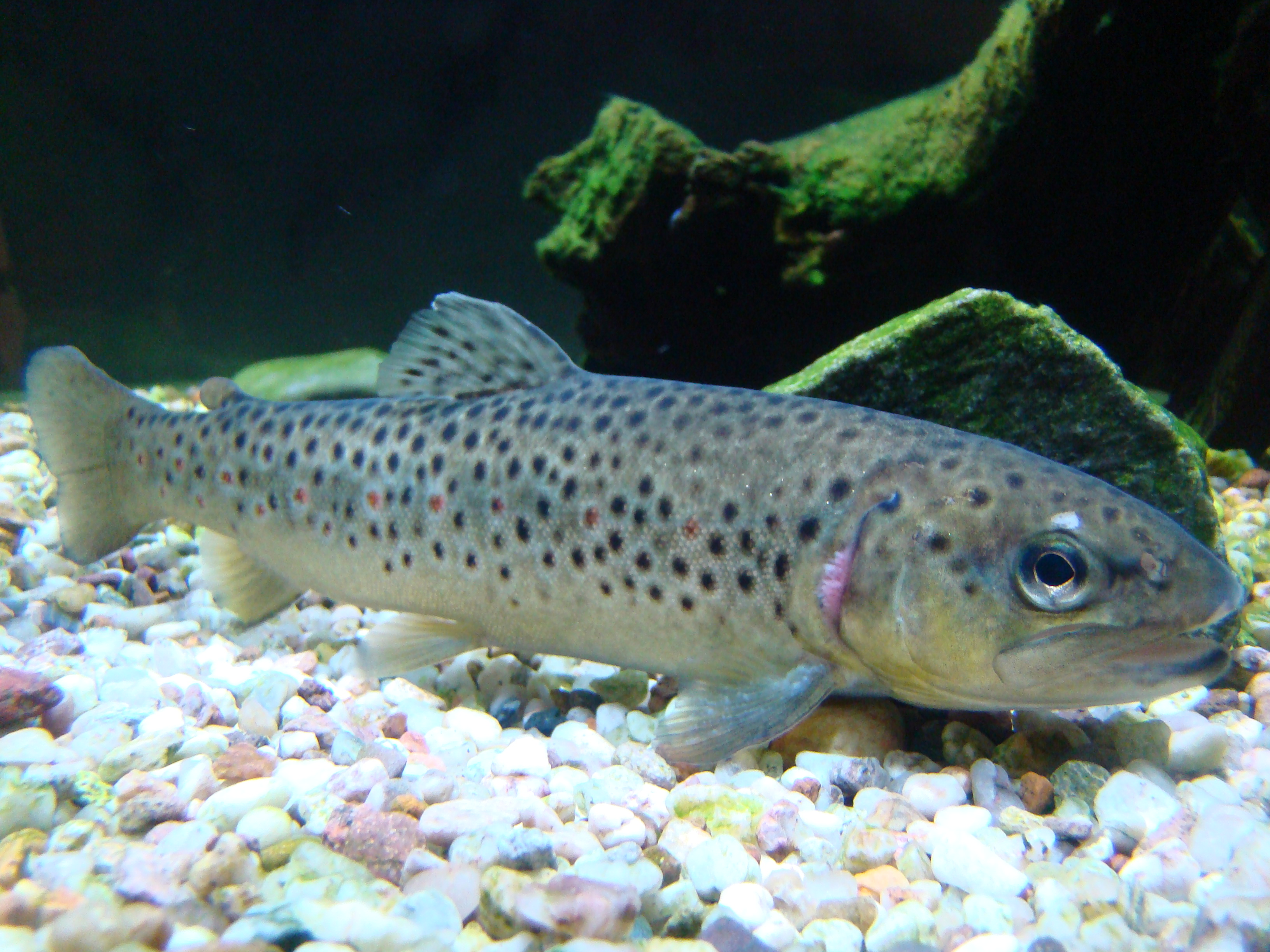 Brown trout in the Arktikum Science Museum in Rovaniemi, Finland.